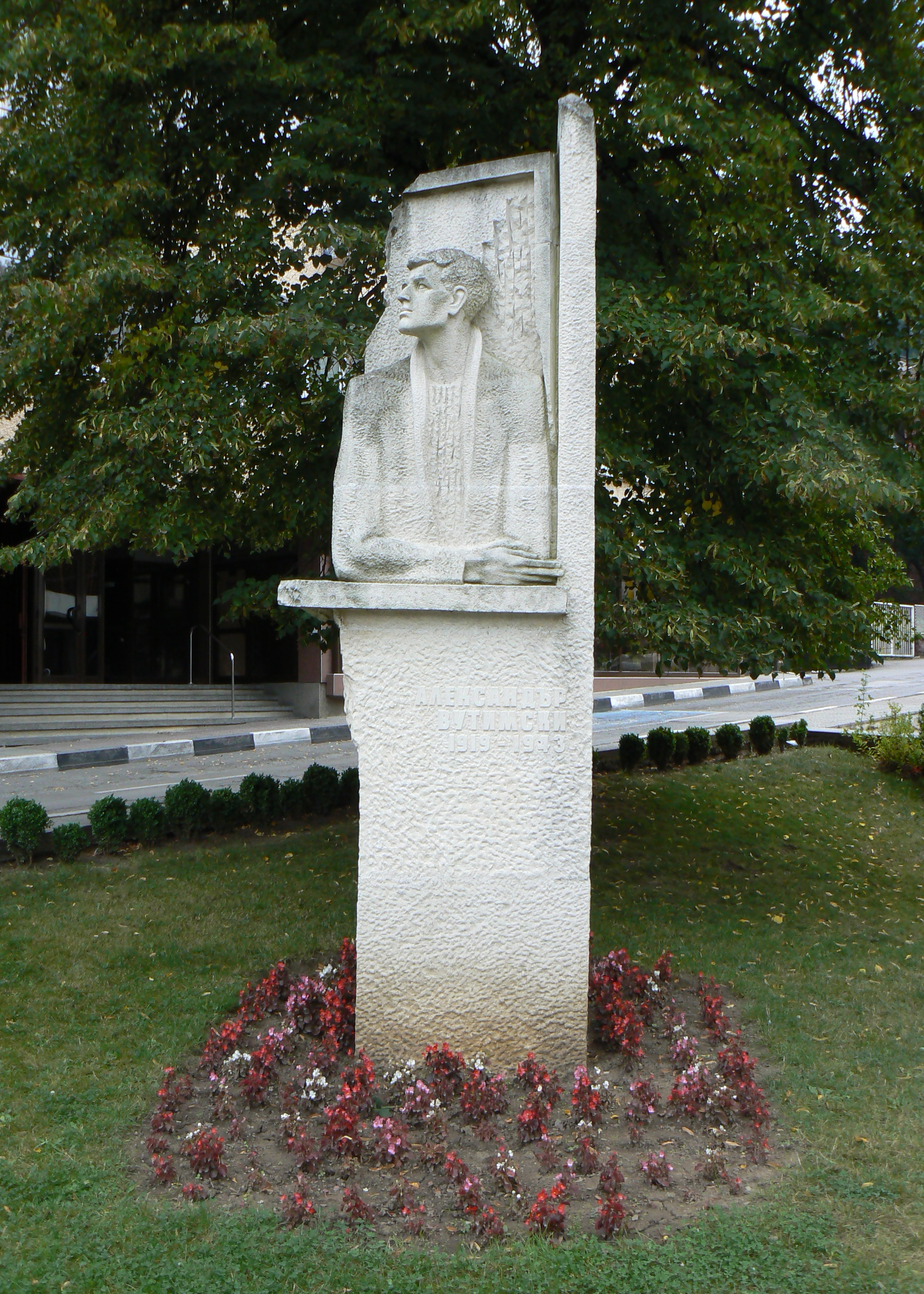 Monument of Alexander Vutimski in Svoge, Bulgaria